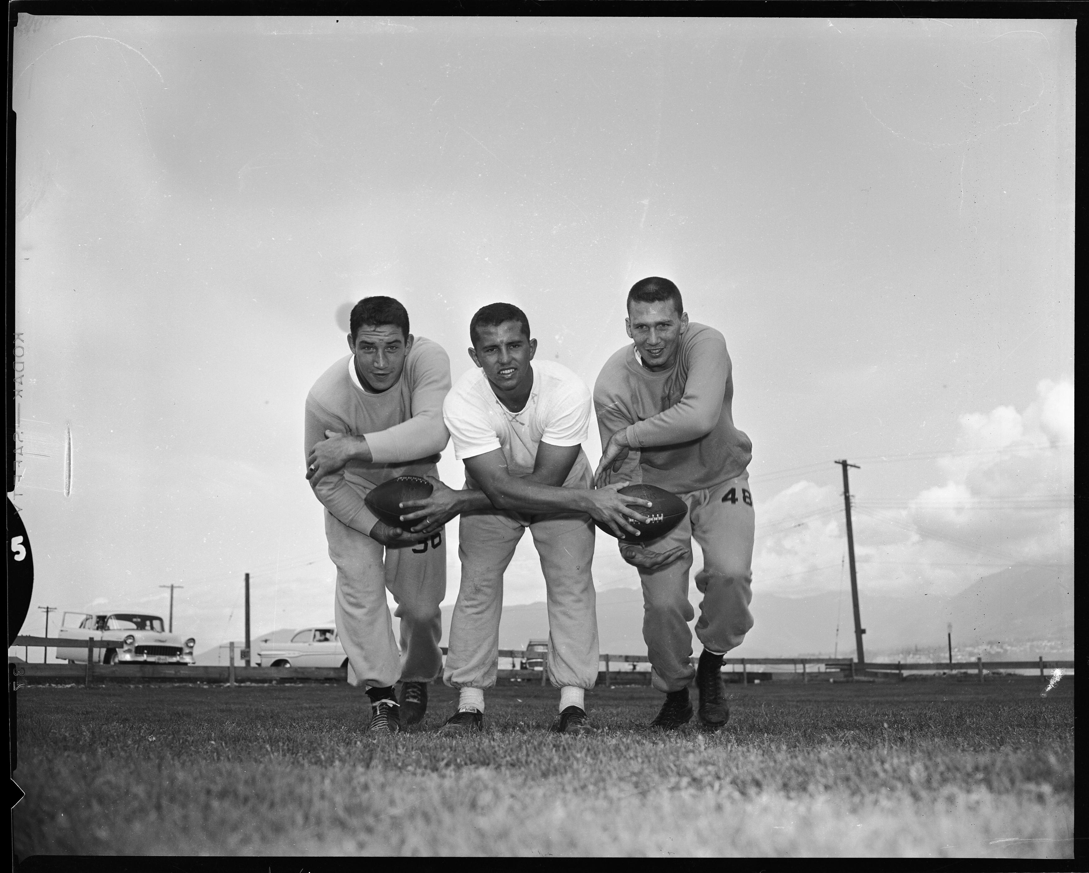 Left to right BC Lions football players, Don Vicic, Ron 'Toppy' Vann and Paul Cameron VPL Accession Number: 59736 Date: July 20, 1957 Photographer/Studio: Province Newspaper Cunningham, William Topic: Football players Portraits, Group Person: Vicic, Don Vann, Ron 'Toppy' Cameron, Paul Organization: B.C. Lions Football Club Location: British Columbia More information on our historical photograph collection